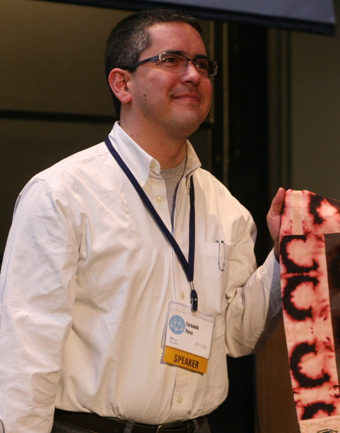 Fernando Perez, creator of IPython, receiving the 2012 Free Software Foundation Award.